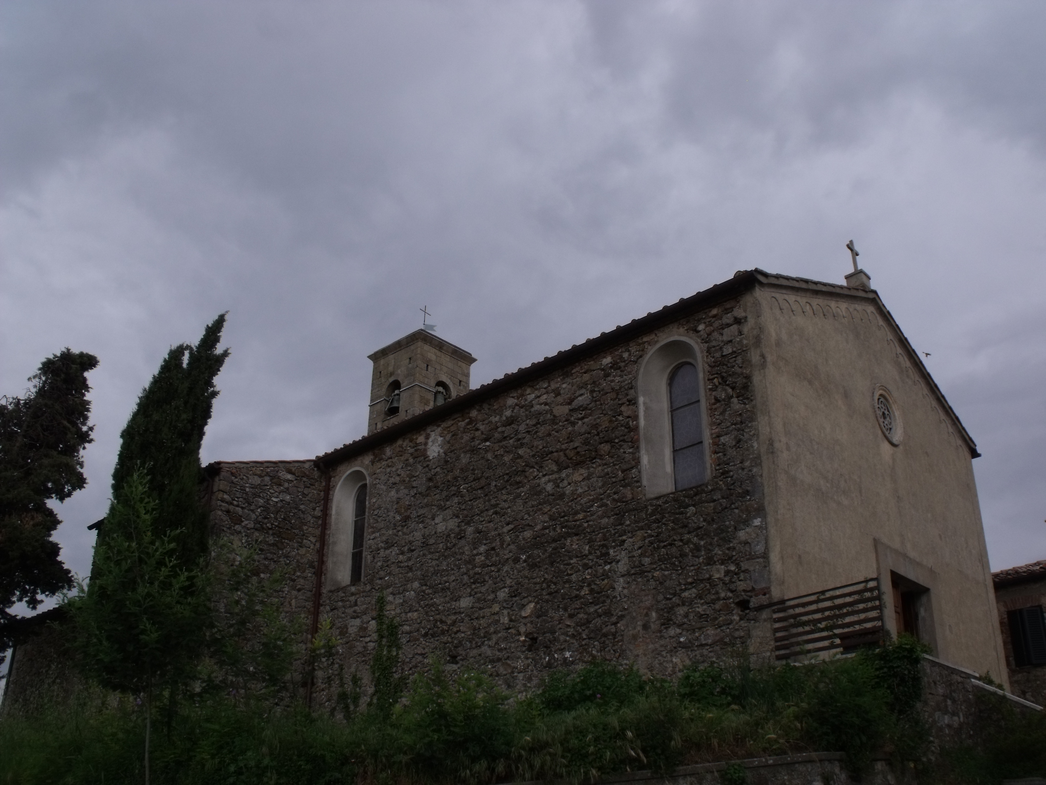 Church of San Donato in Casale di Pari, hamlet of Civitella Paganico, Maremma, Province of Grosseto, Tuscany, Italy